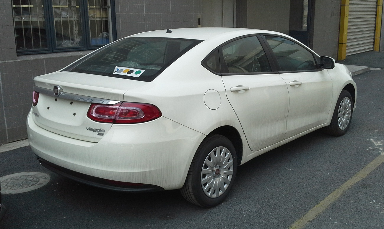 Fiat Viaggio photographed in Shanghai, China.